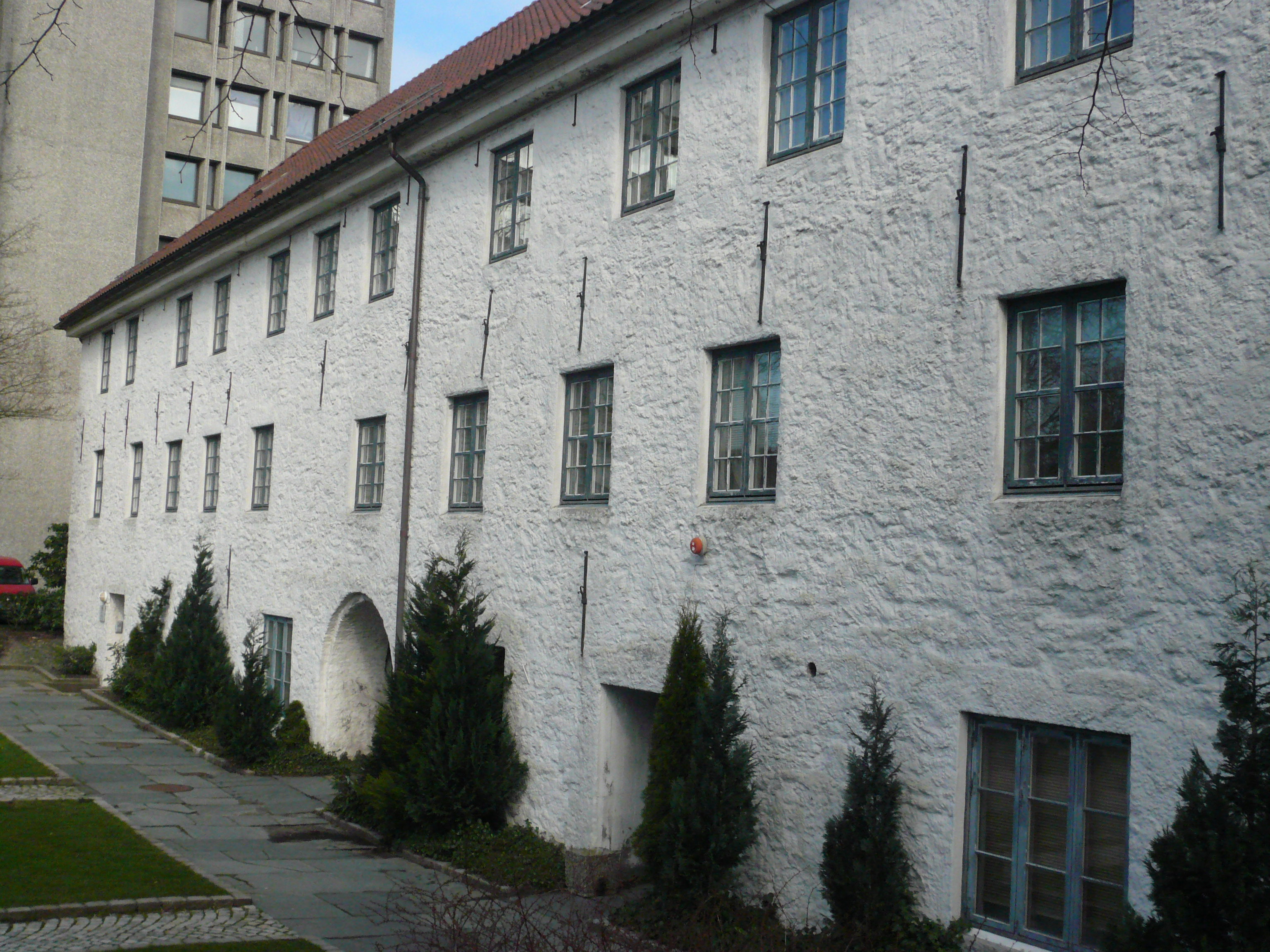 Manufakturhuset, Bergen, Norway.